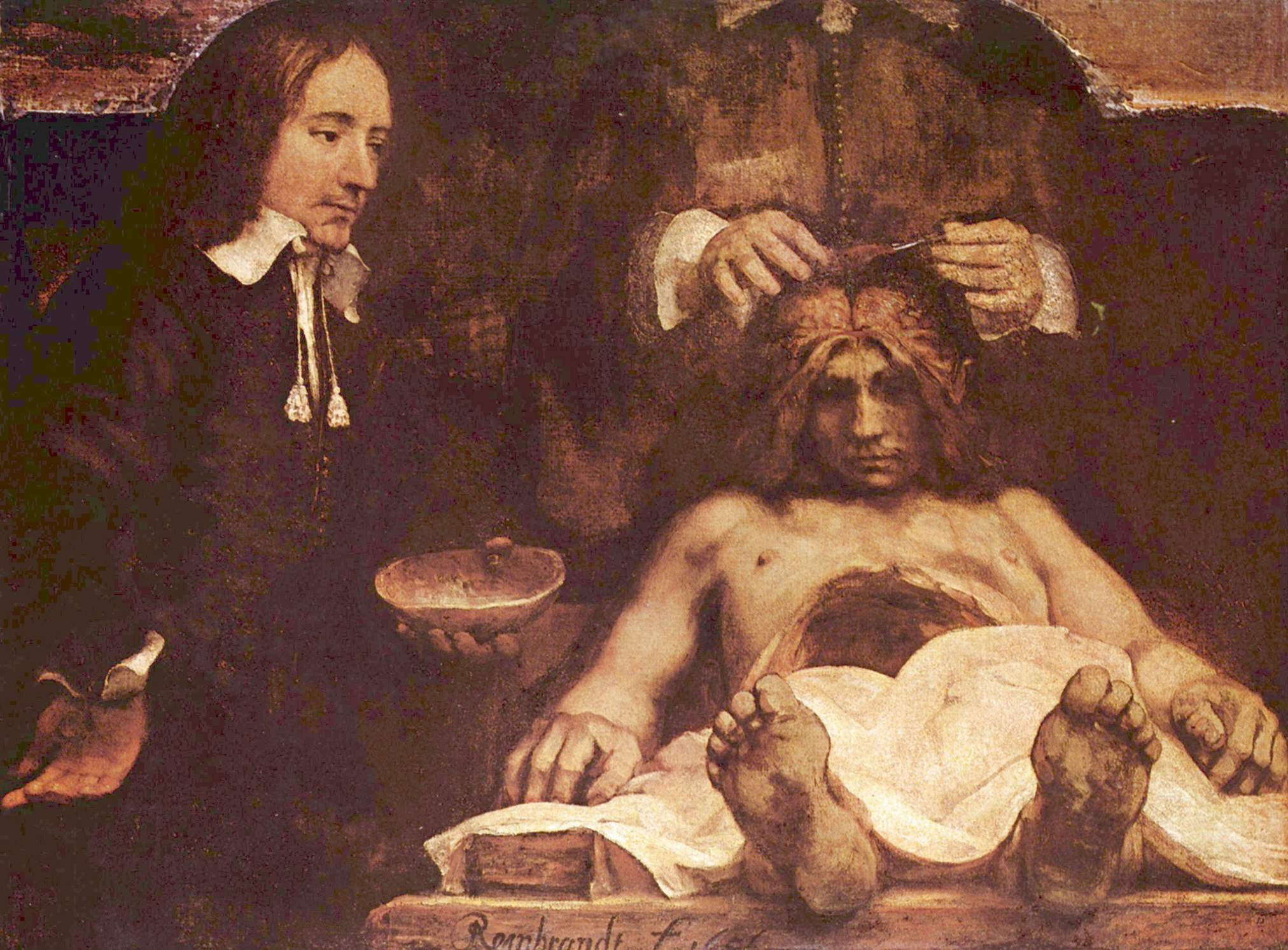 Rembrandt’s second anatomy lesson is a fragment of a group portrait. In 1723 most of the canvas was destroyed by fire. The remaining central section shows Dr Jan Deijman performing an autopsy on a dead men’s brains. The assistant is holding the top of the skull. Rembrandt has presented the dead man in a foreshortening so that the dissecting table appears to be protruding out of the picture.